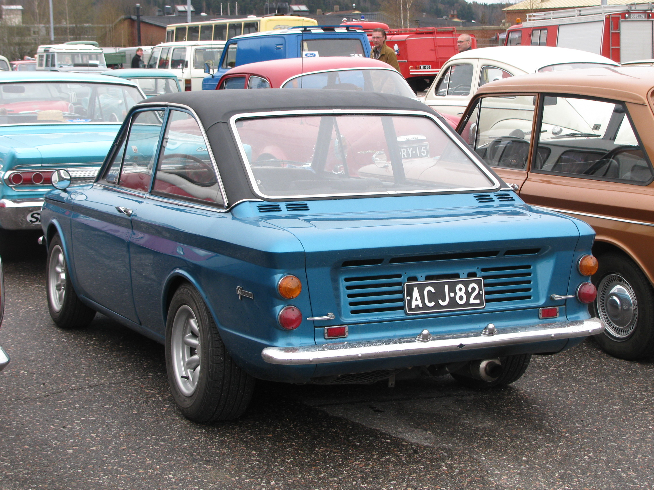 Sunbeam Stiletto, Classic Motor Show parking lot in Lahti, Finland.